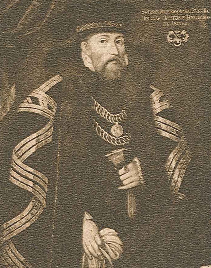 Klas Horn (1517-1566), Swedish baron and admiral.